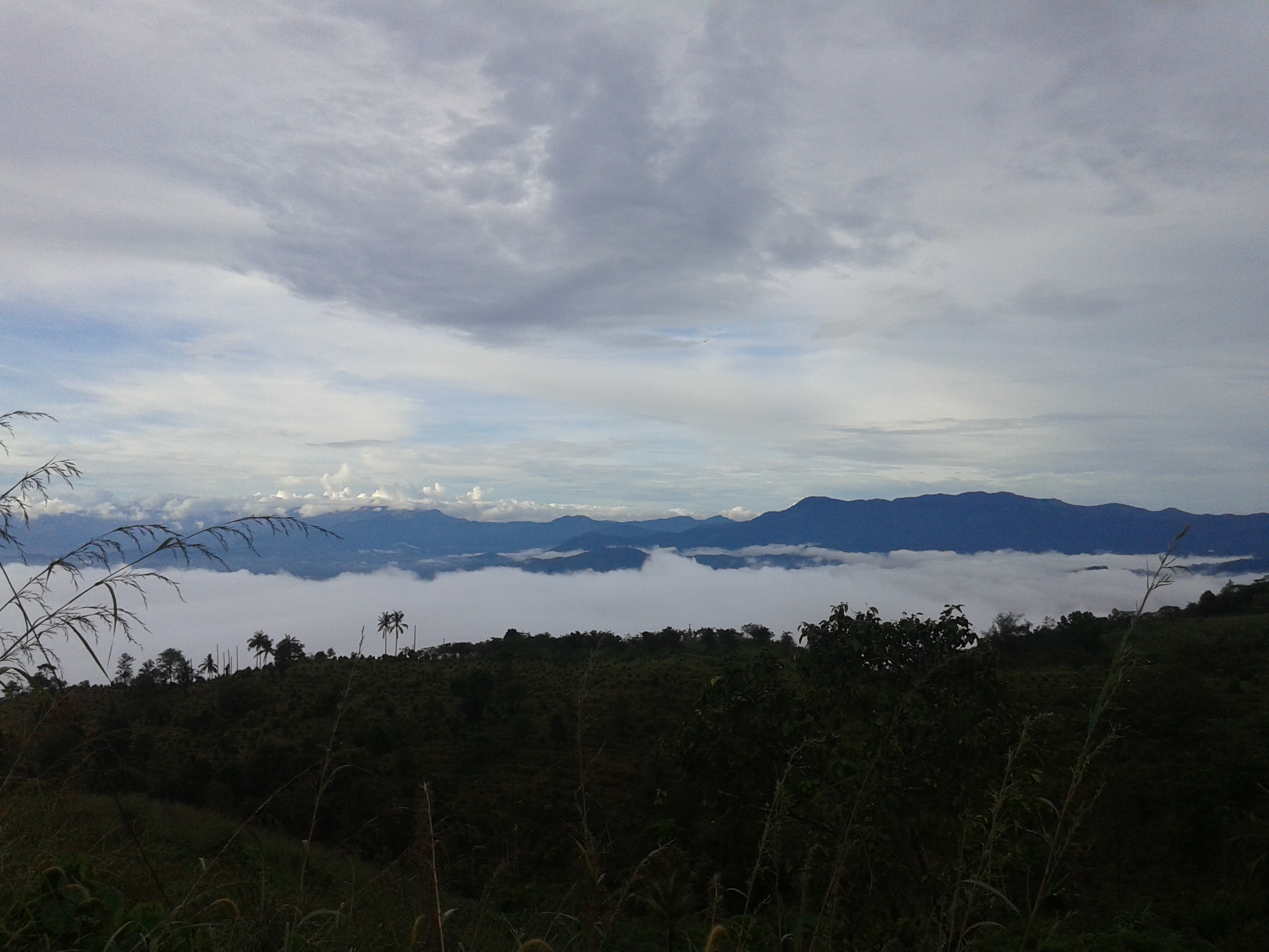 Elapeedika